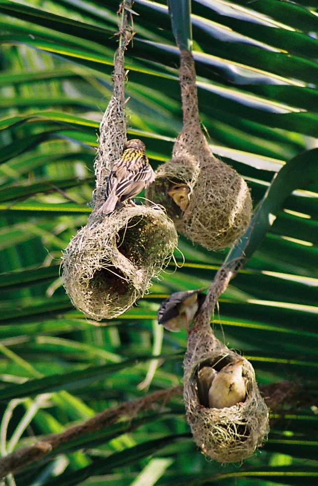 Most of the Baya Wears here may be female or may be males not yet in thir breeding plumage, Picture Taken at Kotaballappalli, Karnataka, India.